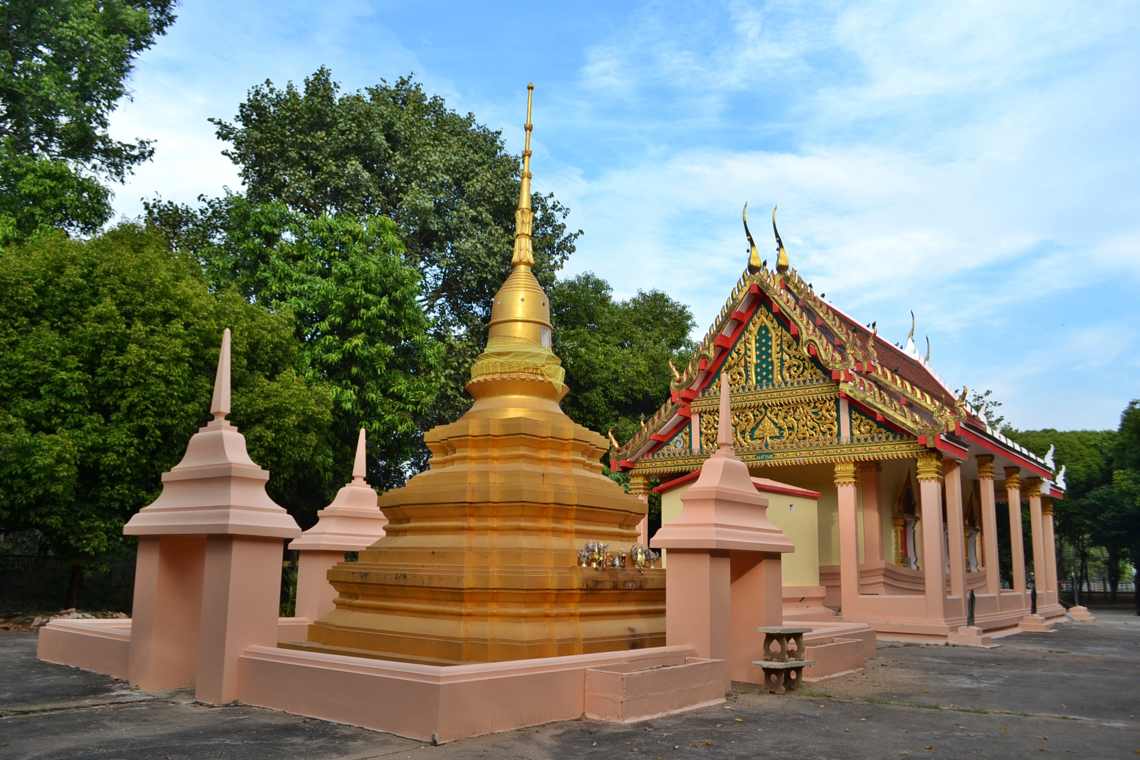 Wat Wang Mu Mueang Uttaradit, Uttaradit Province, Thailand. on March 17, 2009.